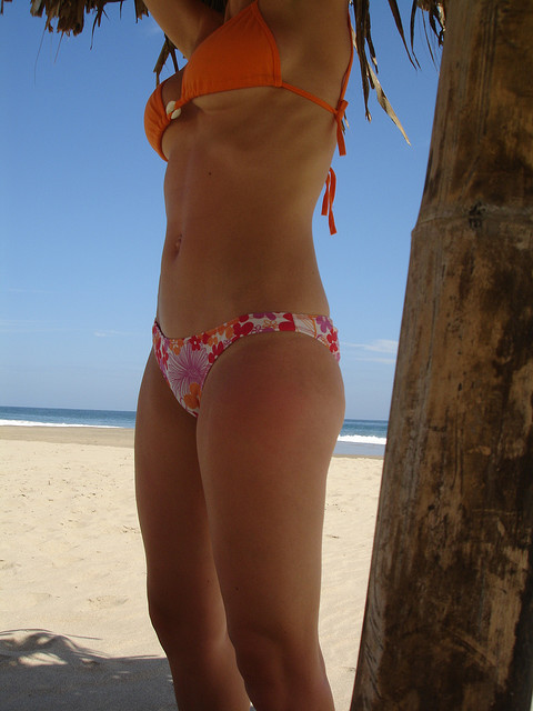 At the beach in Peru.